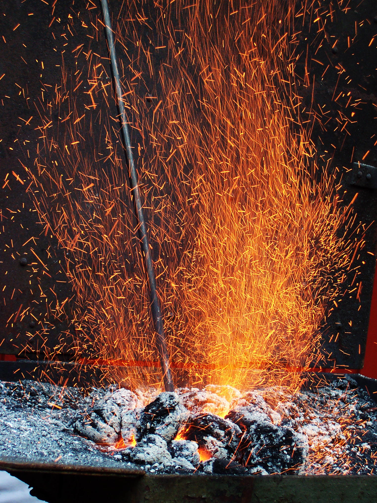 forge, smith's hearth, fire, sparks